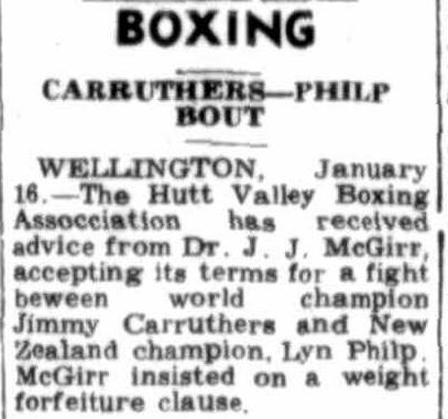 Boxing Philp v Carruthers